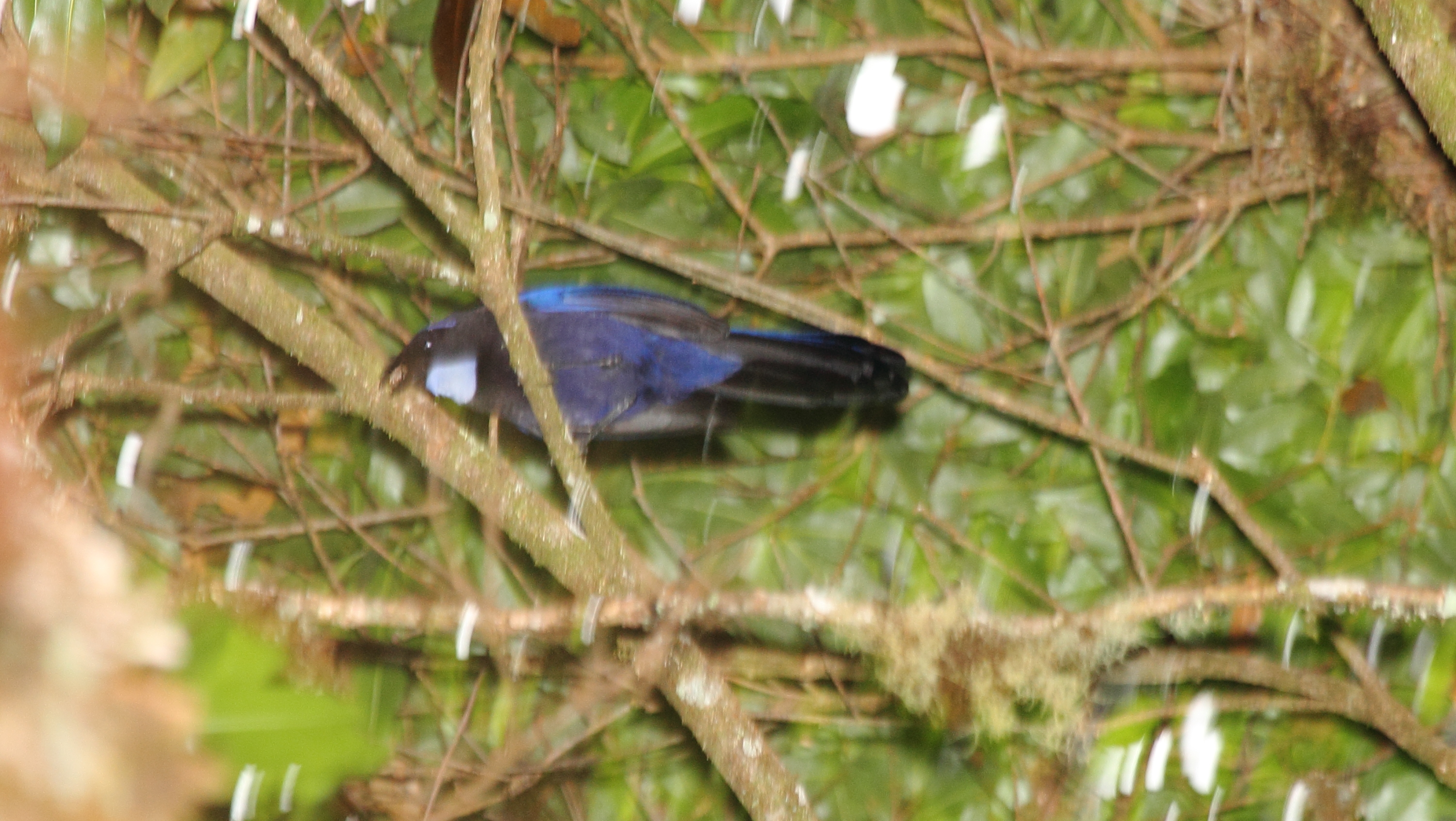 Silver-throated Jay (Cyanolyca argentigula). Photographed at Savegre, in Costa Rica.